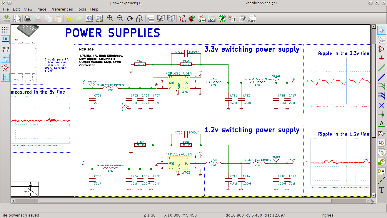 Screenshot of a 2015 build of the KiCad Eeschema schematic capture software. KiCad is Free Software (GPL).